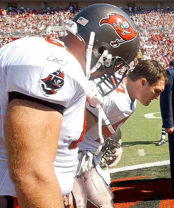 Opening Ceremonies for Vikings @ Buccaneers, NFL season 2002. For Vikings, from left to right, Chris Walsh, Daunte Culpepper and Matt Birk.